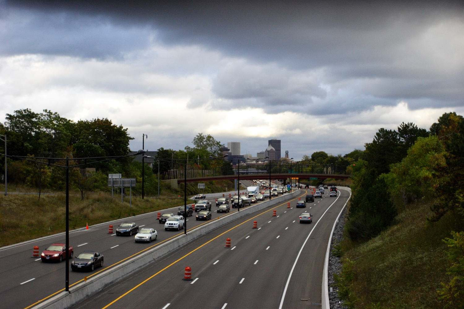 Interstate 490EB west of Downtown Rochester